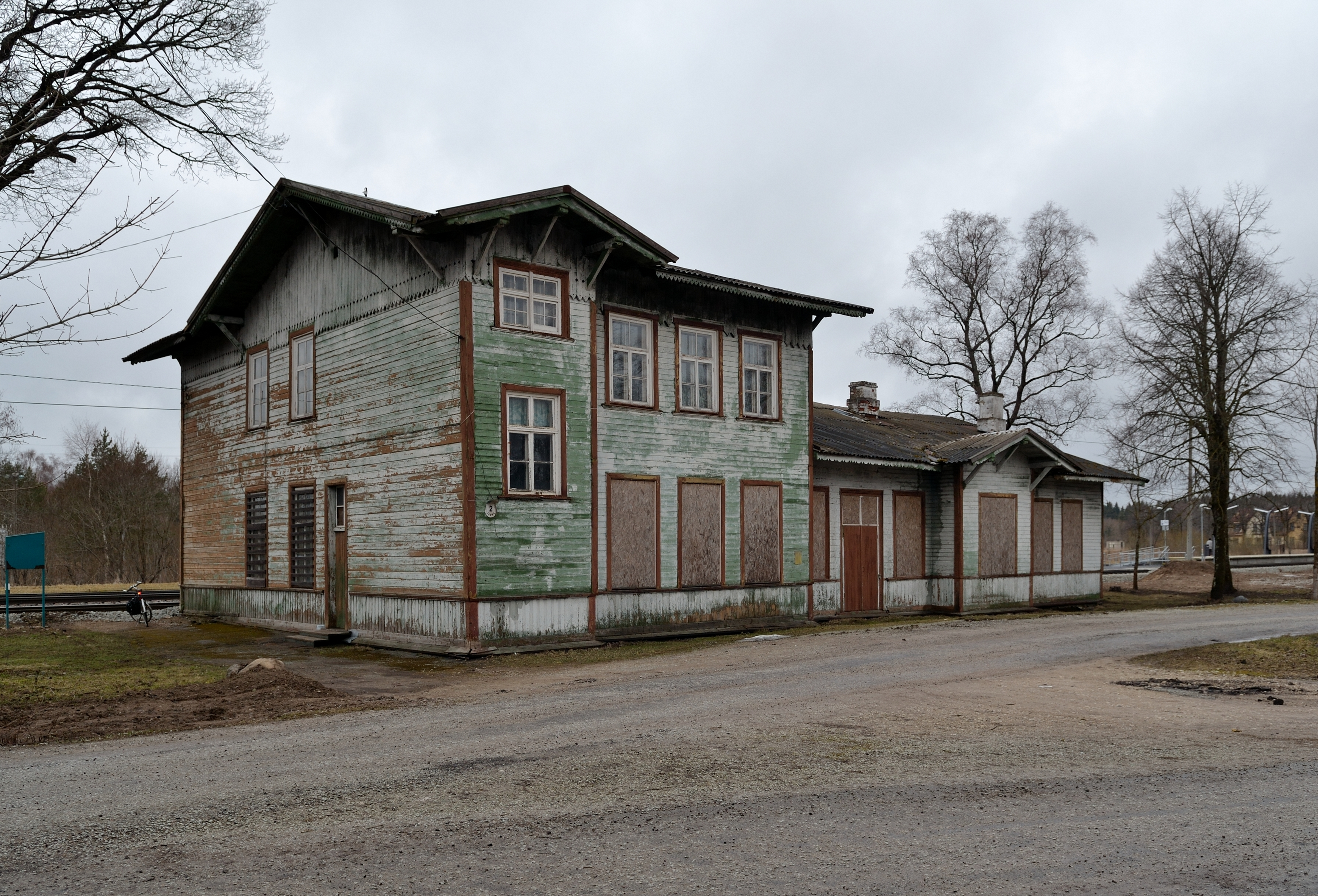 Kiltsi station main building